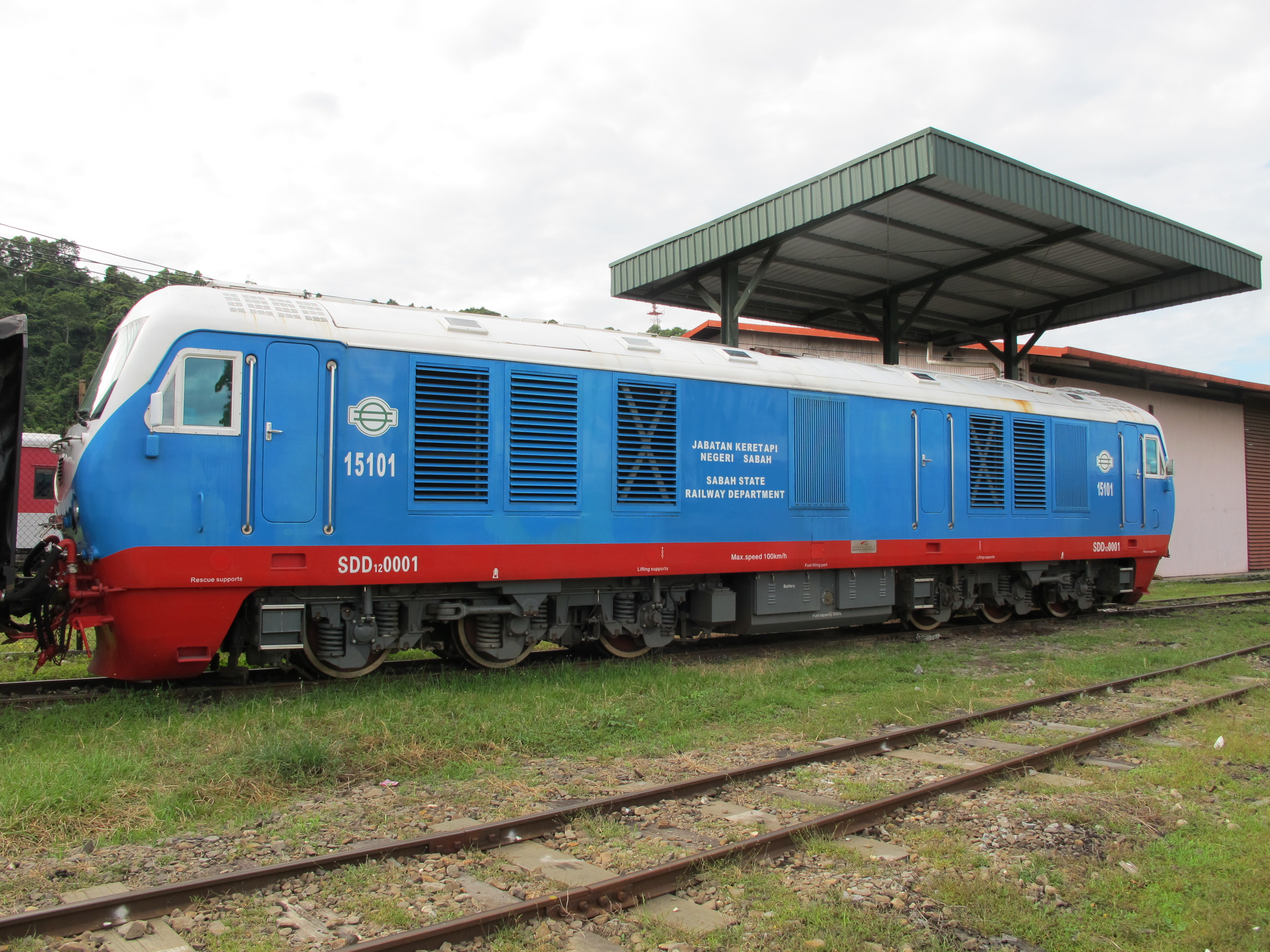 Locomotive built 2009 by CSR Ziyang Locomotive Co Ltd, operated bz Sabah State Railways. Photo taken at Tg Aru